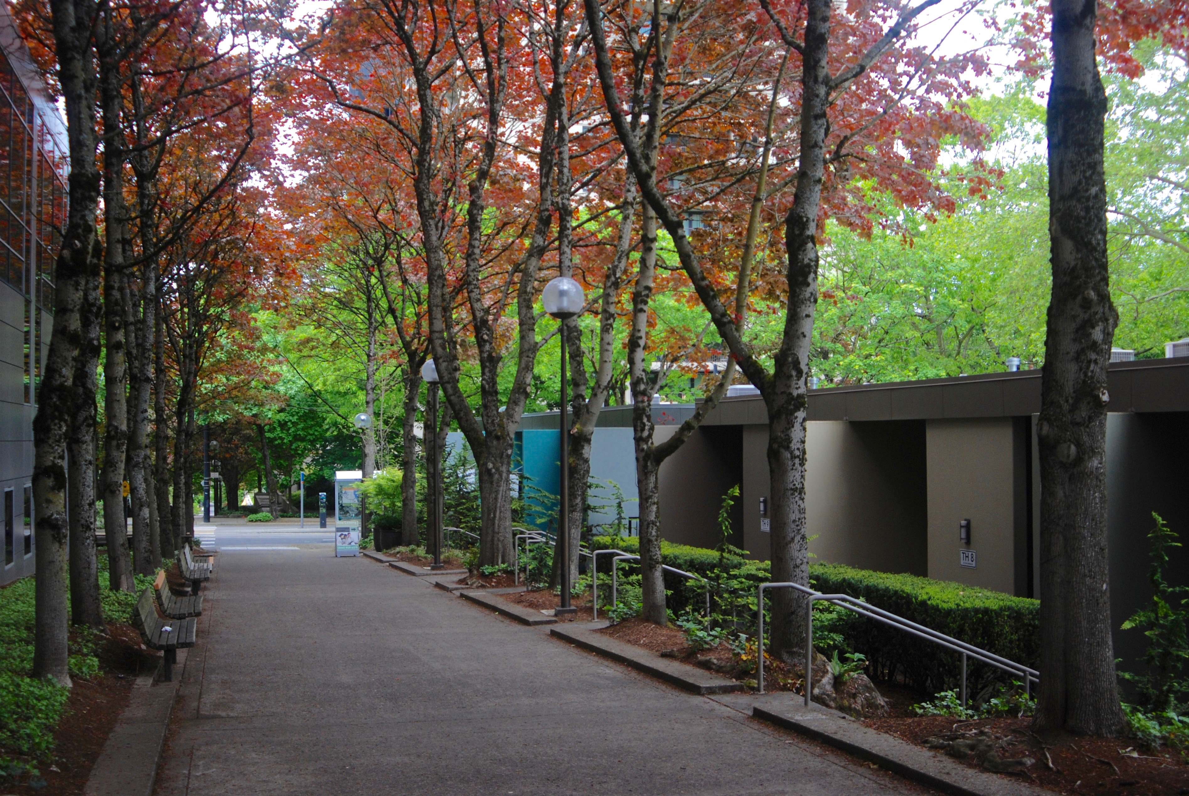 Looking north on a pedestrian mall on the alignment of SW 3rd Avenue towards Harrison Street from just north of Lovejoy Fountain Park, in downtown Portland, Oregon. The pathway is part of the Halprin Open Space Sequence, a system of connected pedestrian malls and landscaped open spaces created in 1966–68 and listed on the U.S. National Register of Historic Places in 2013.